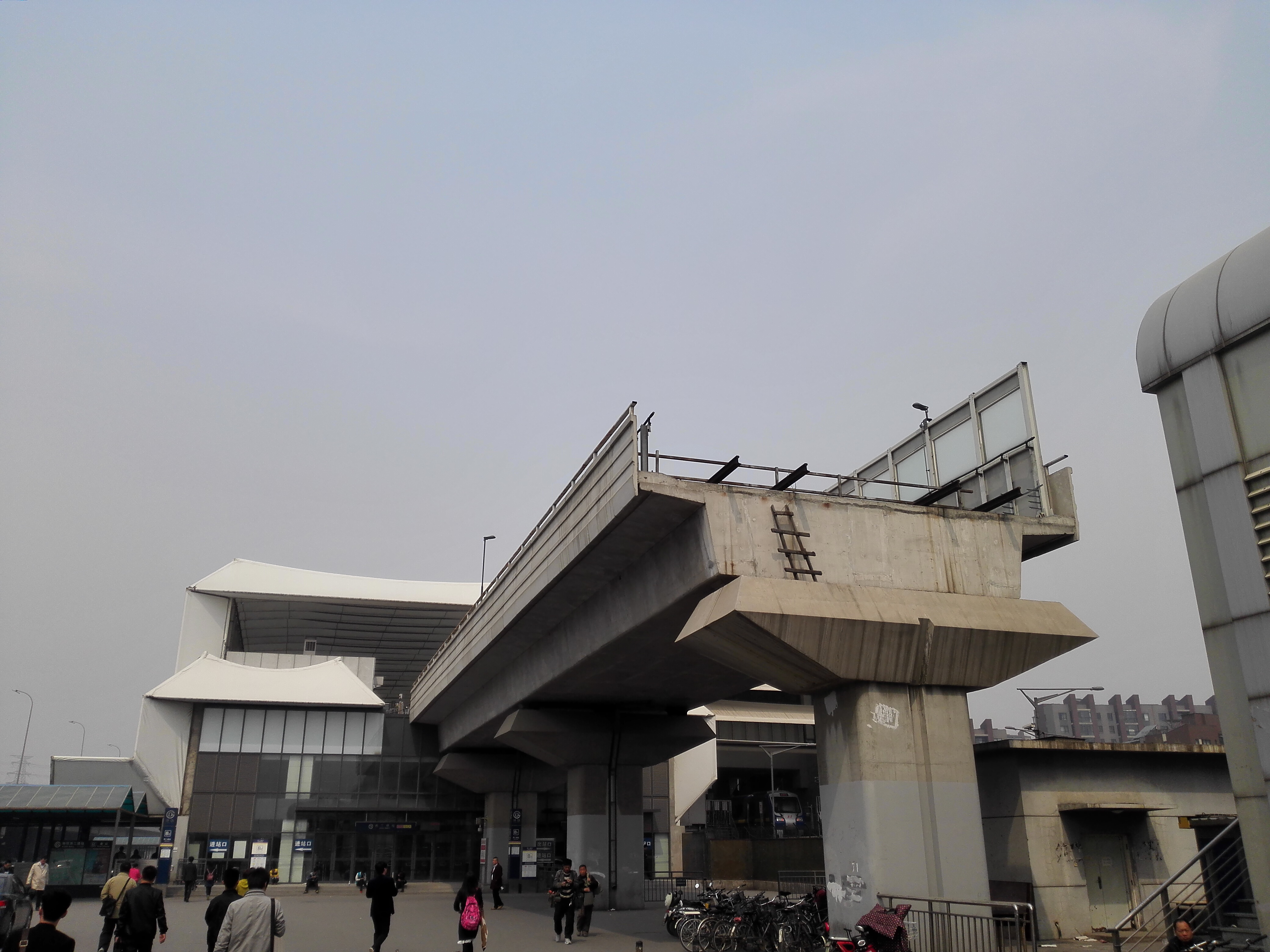 Xi'erqi Station End of Changping Line 中文（中国大陆）: 西二旗站，昌平线末端